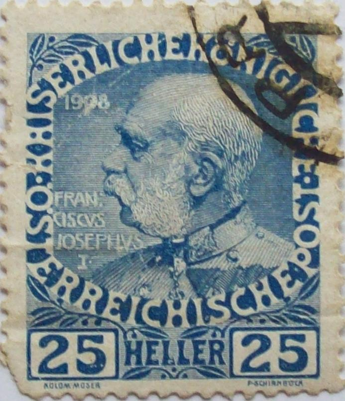 Franz Joseph I - 1908 postage stamp